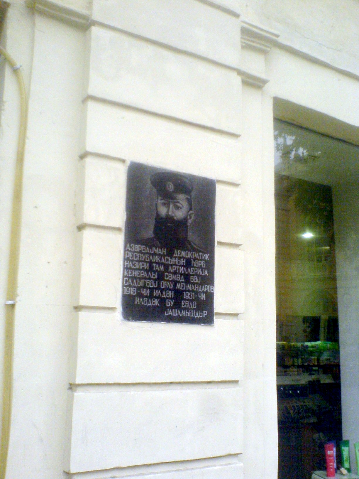 Memorial desk in the house where Mehmandarov lived from 1918 to 1931